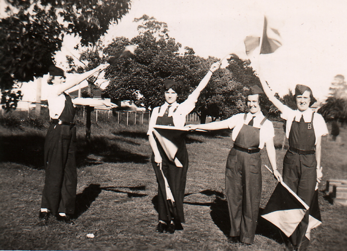 Dressed in the practical green uniforms designed by Florence Violet McKenzie, these Women's Emergency Signaling Corps members spell out W E S C with the semaphore flag signalling system, one of several signalling systems in which they were proficient